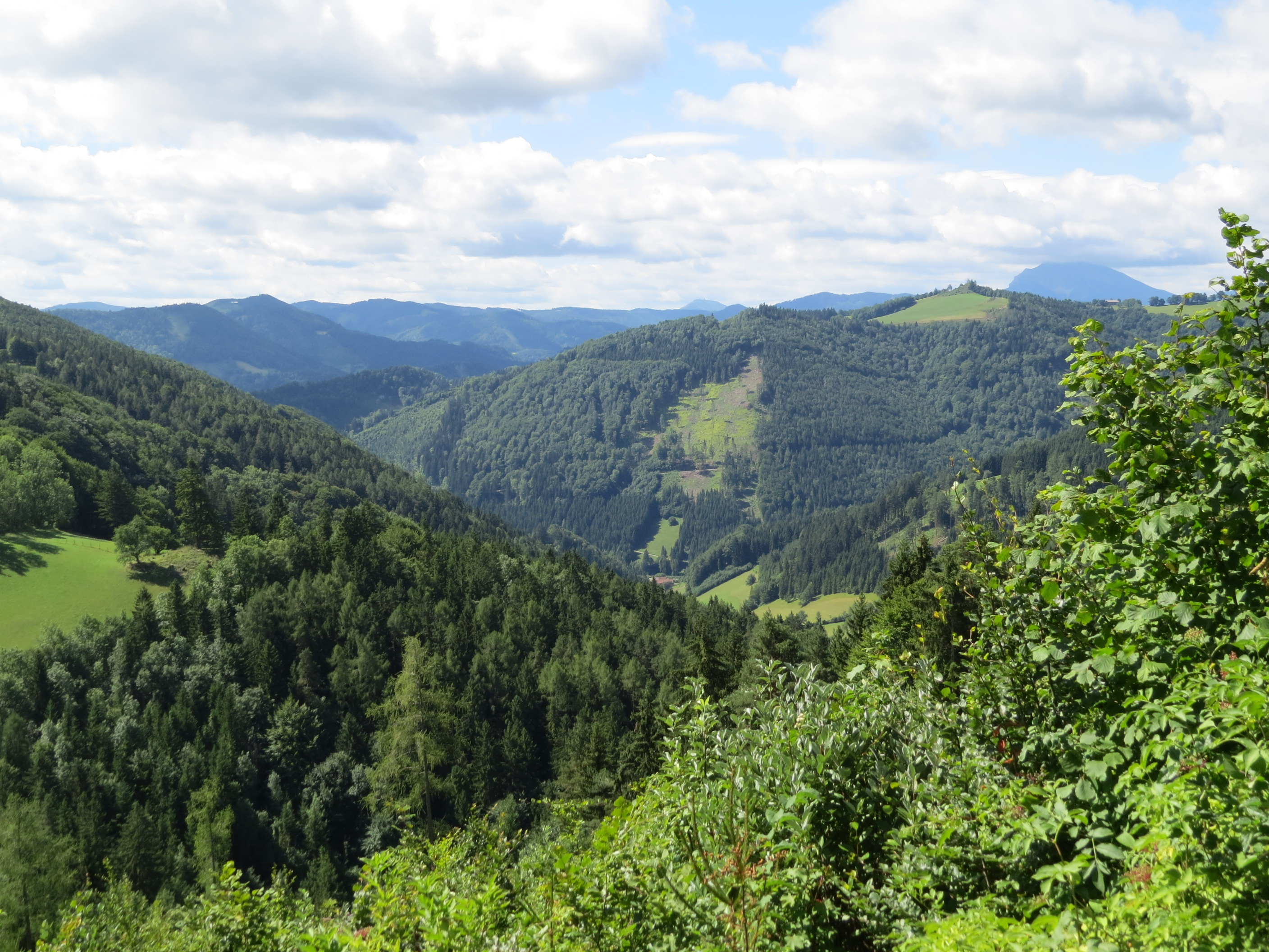 View from Haltgraben near the boarder of Frankenfels and Texingtal to Frankenfelsberg and Ötscher, Frankenfels, Österreich